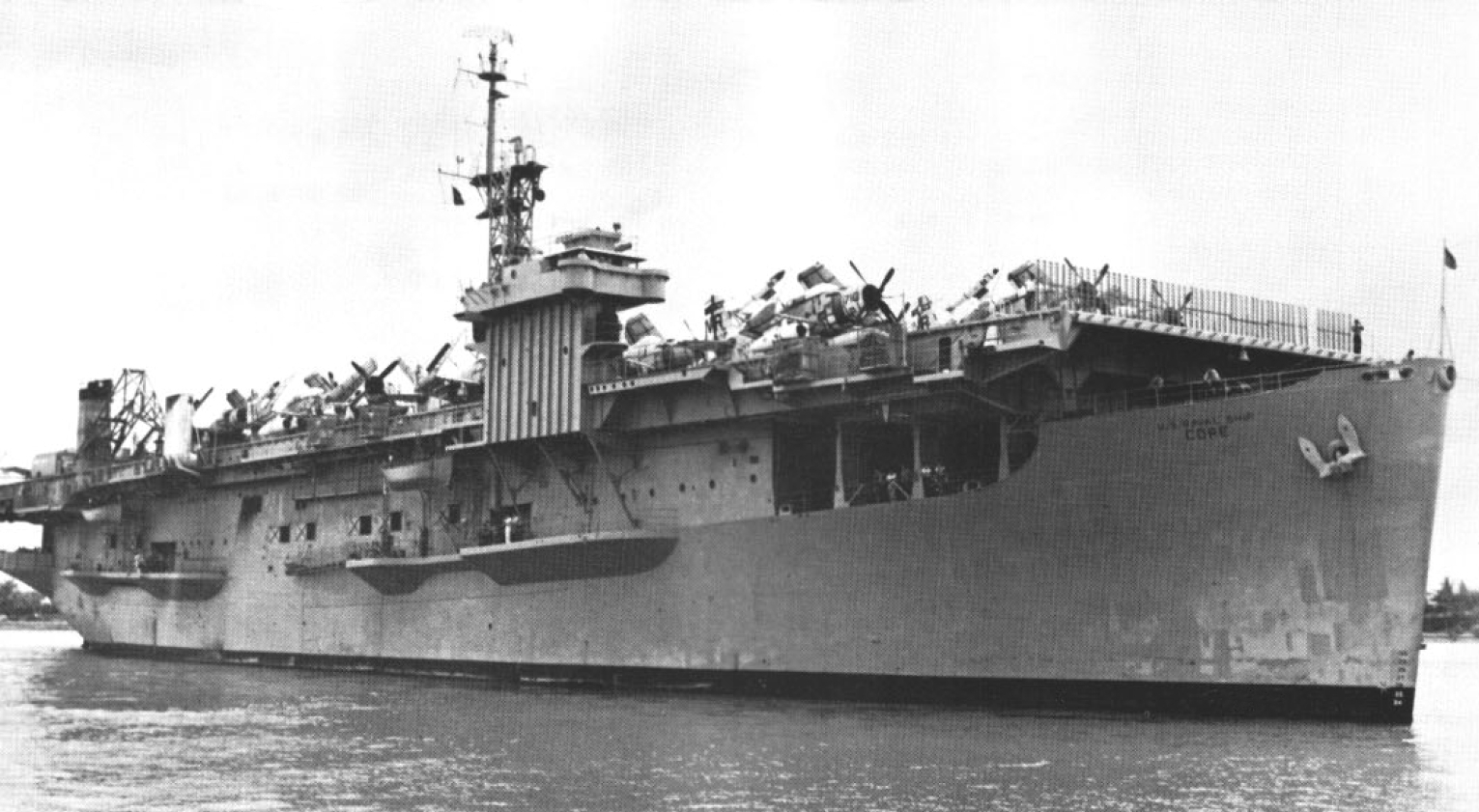 The U.S. Military Sea Transport Command aviation transport USNS Core (T-AKV-41) transporting Douglas A-1 Skyraider aircraft up the Saigon River, Vietnam, circa 1967.